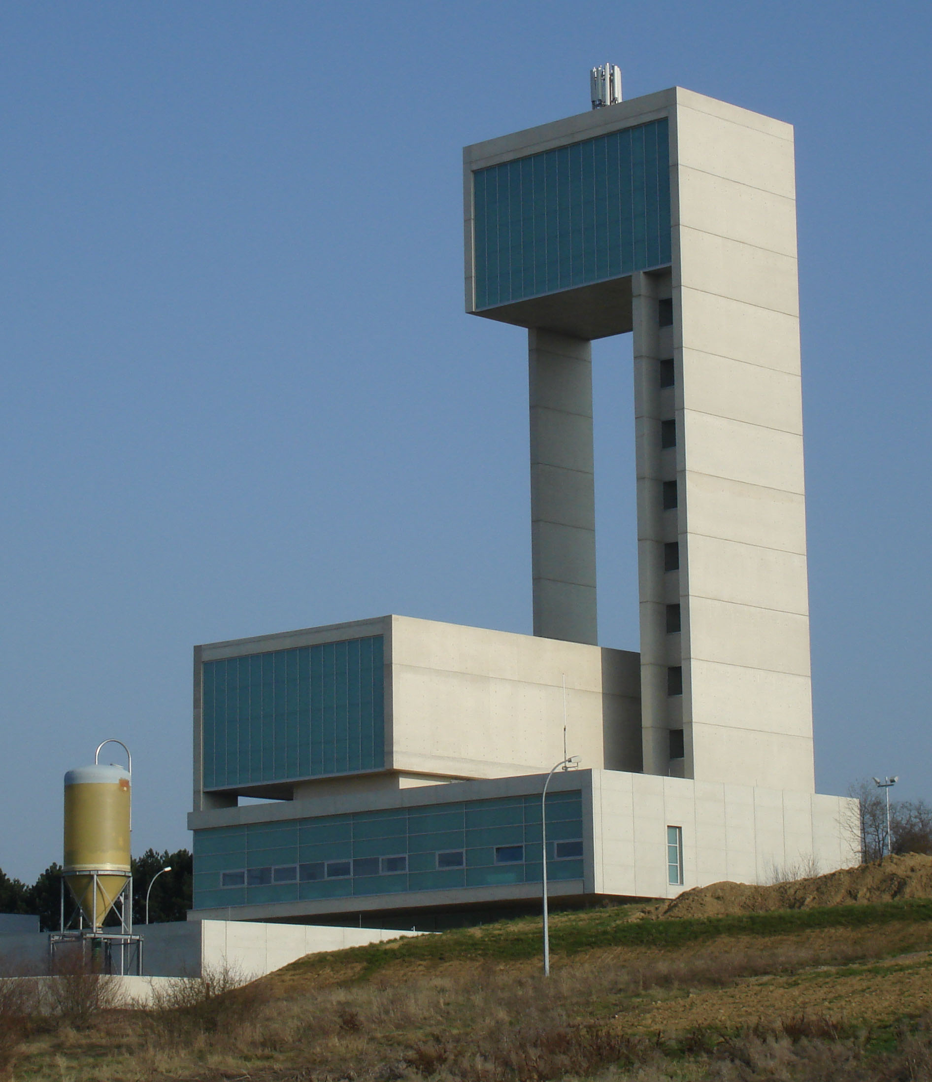 The new water tower of Leudelange, Luxembourg (900 m3 + 500 m3)